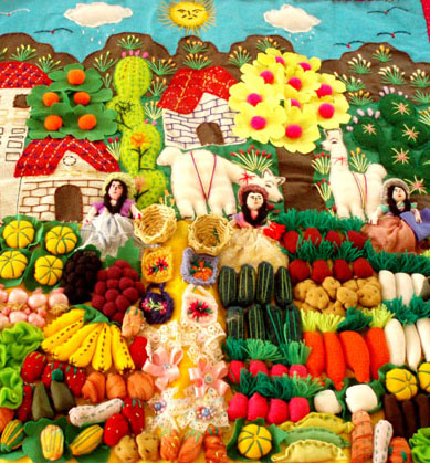 Arpillera 3D quilt